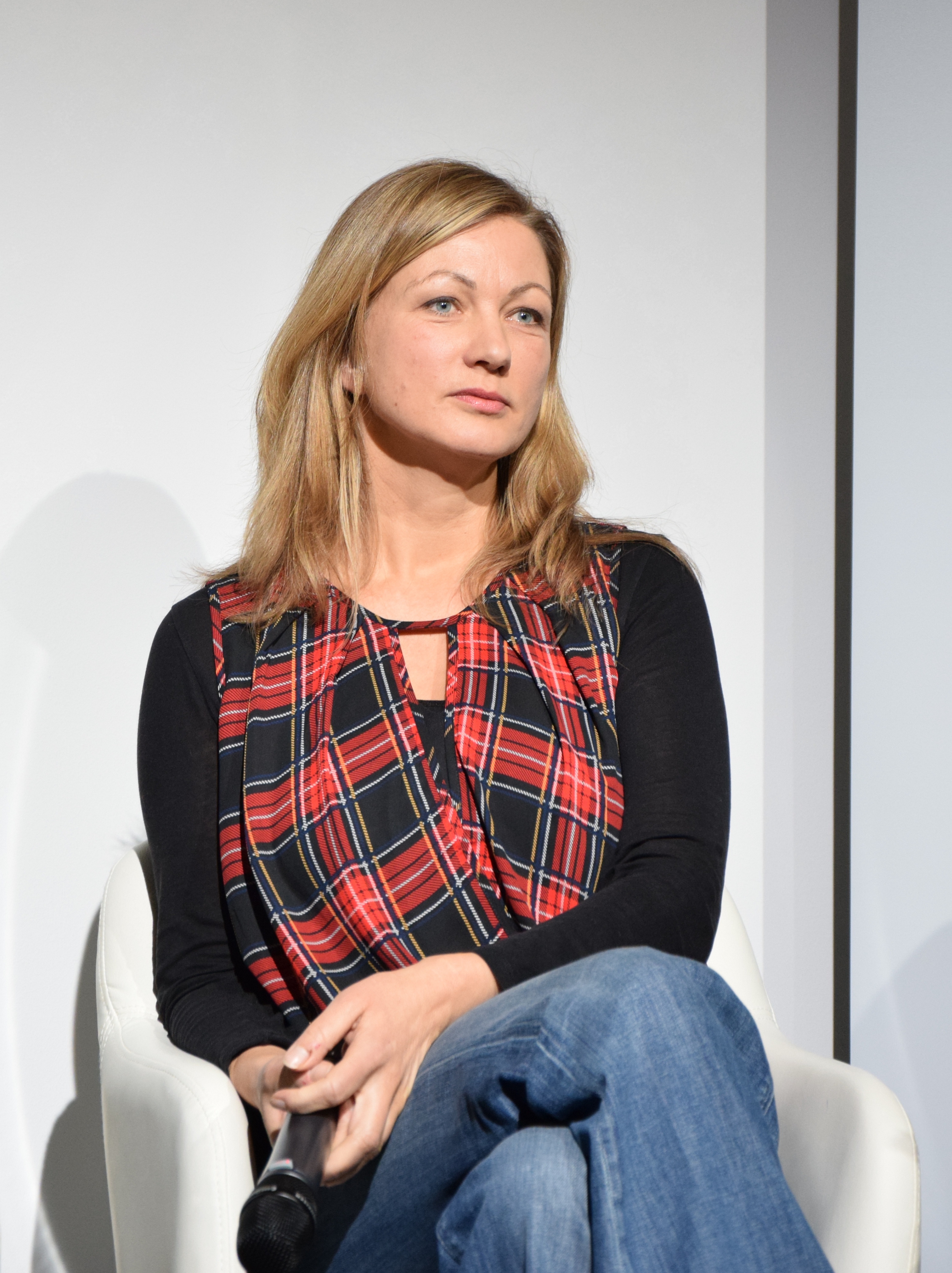 This is a photo of a conference at the Wikimedia Salon.